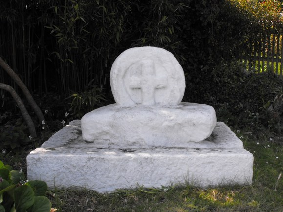 White cross at Whitecross The white painted granite cross which gives the hamlet its unsurprising name.